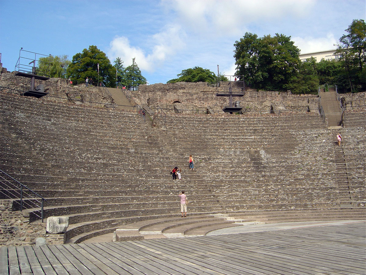 theatre of Lyon.